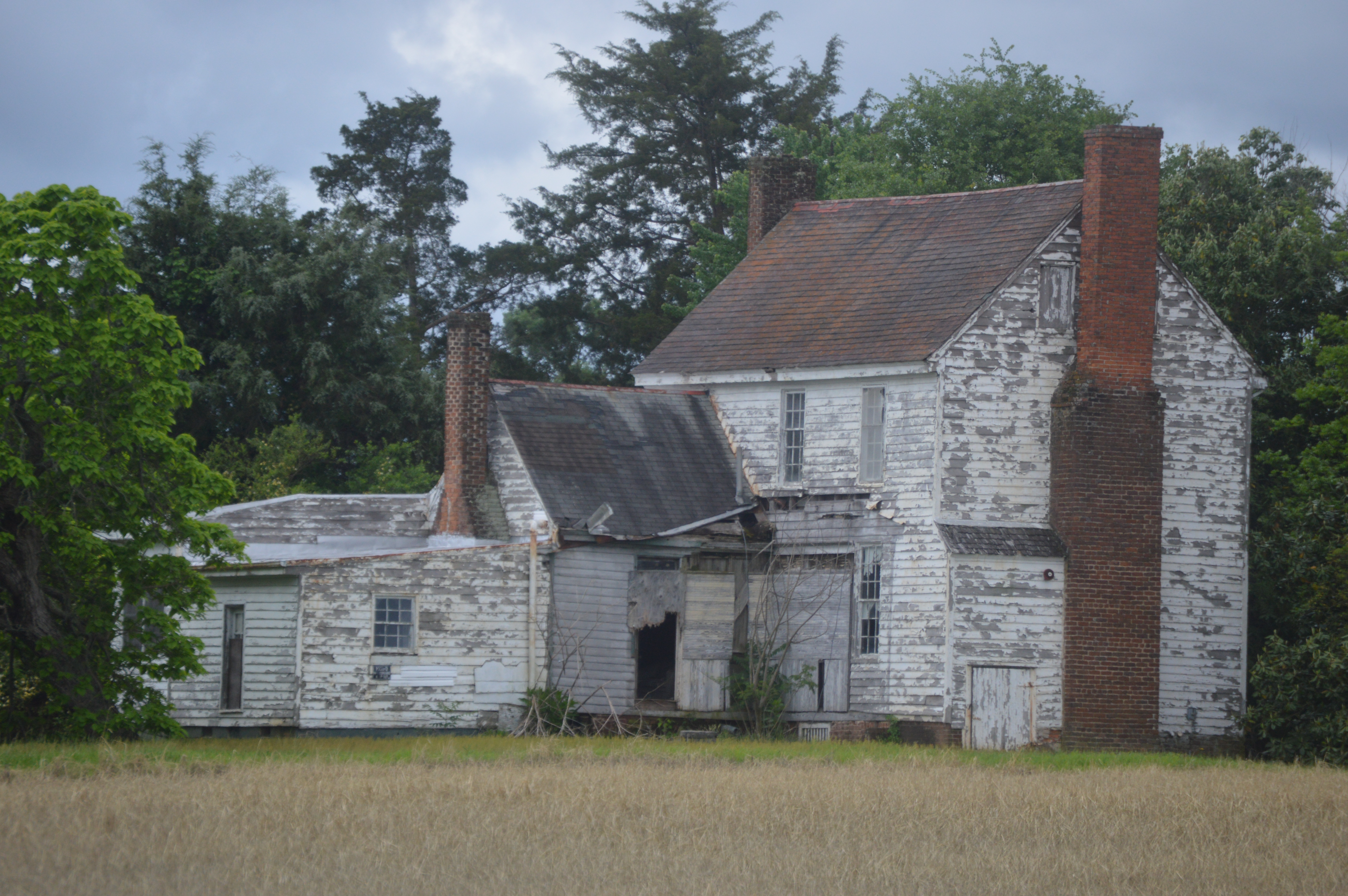 Northern side and rear of the main house at Rose Bower, located on Walkers Mill Road east of McKenney in Dinwiddie County, Virginia, United States. Built in 1826, it is listed on the National Register of Historic Places.